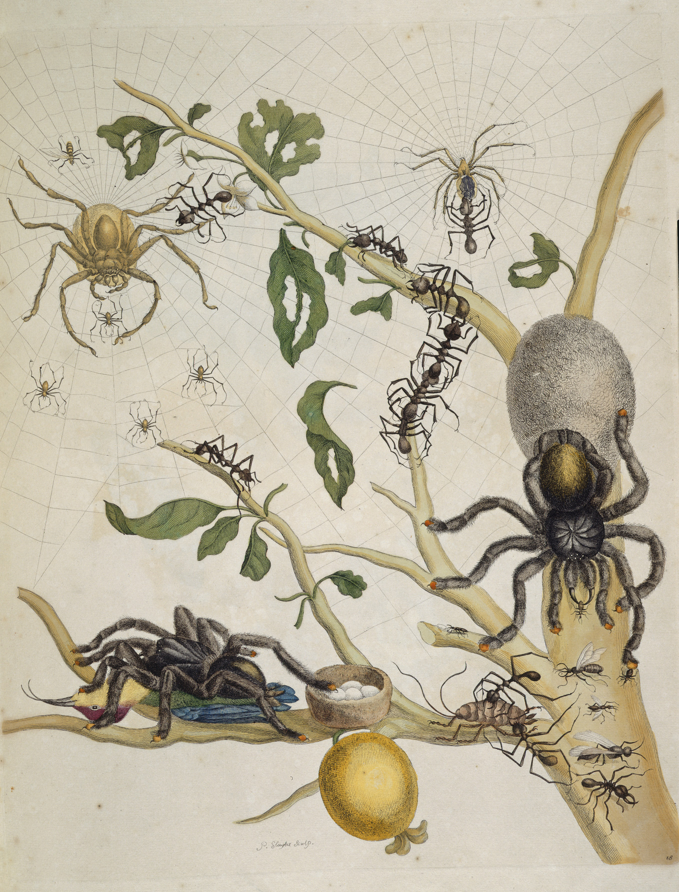 Spiders in their webs